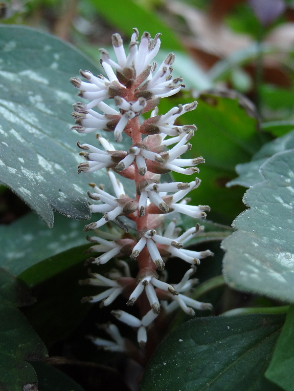 Closeup of Pachysandra procumbens flower, taken in Western NC, Spring, 2012